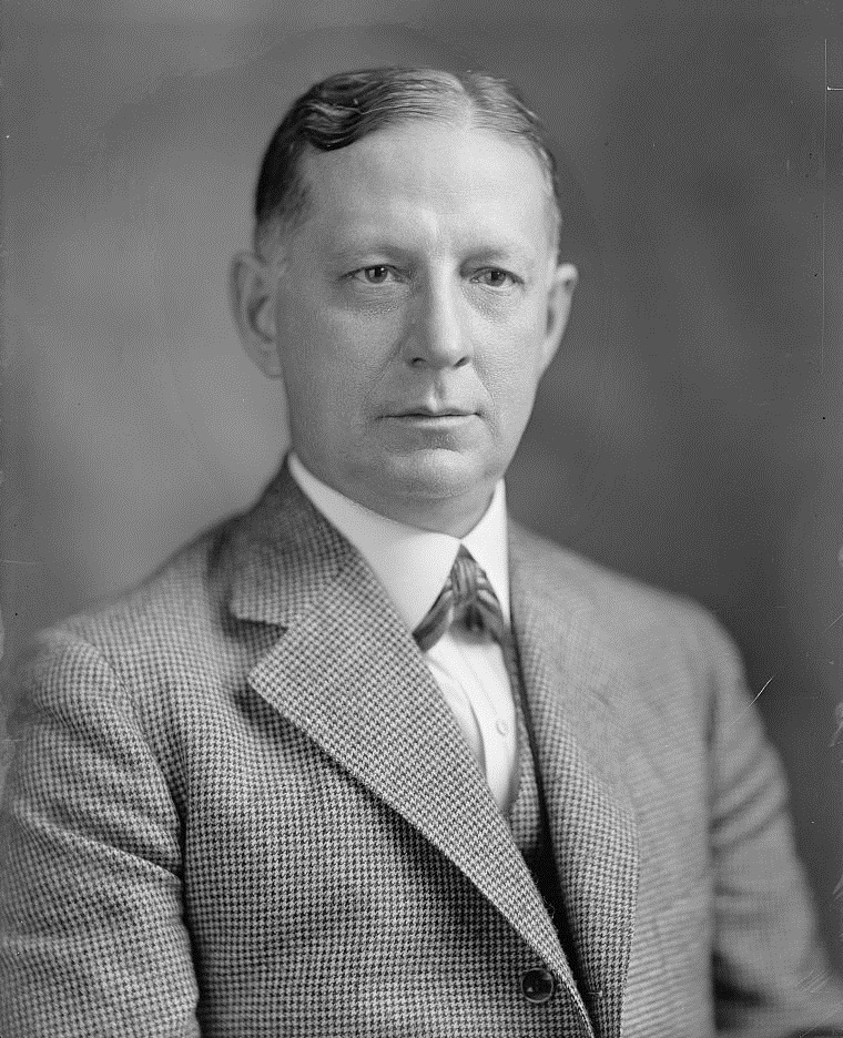 B. Frank Murphy, congressman from Steubenville, Ohio.